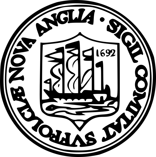 The Seal of Suffolk County, Massachusetts, the first seal ever adopted by a judicial court in the Commonwealth of Massachusetts, this symbol first appeared in 1680. The version seen here is based loosely on one modernized by the Suffolk County Sheriff's Office (rarely used compared to the City of Boston's own seal) however it remains virtually unchanged in its subject matter and inscription from its 1680 counterpart (#4) The seal reads Sigil[lum] Comitat[us] Suffolciæ, Nova Anglia or literally "The Seal of the County of Suffolk, New England"